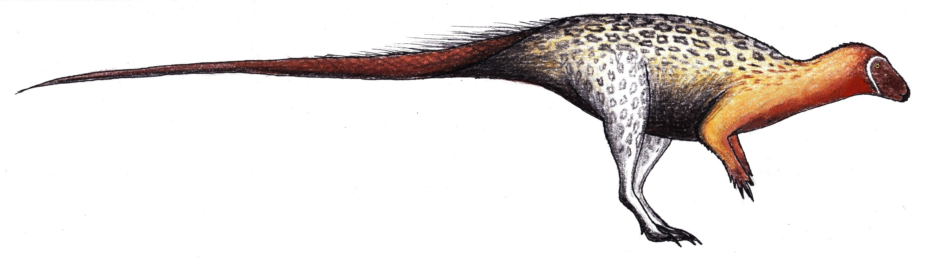 Compared skulls and life restorations of "hypsilophodontid" grade neornithischians.